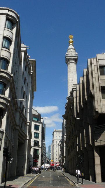 Pudding Lane, London As a humble baker went about his business in early September 1666, he could have had no idea how events would change the landscape in this part of London.